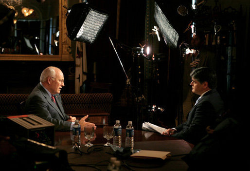 Interview of the Vice President by Sean Hannity, The Sean Hannity Show Vice President Dick Cheney participates in a radio and television interview with Sean Hannity of FOX News in the Vice President's Ceremonial Office during the White House Radio Day, Tuesday, October 24, 2006. White House photo by David Bohrer